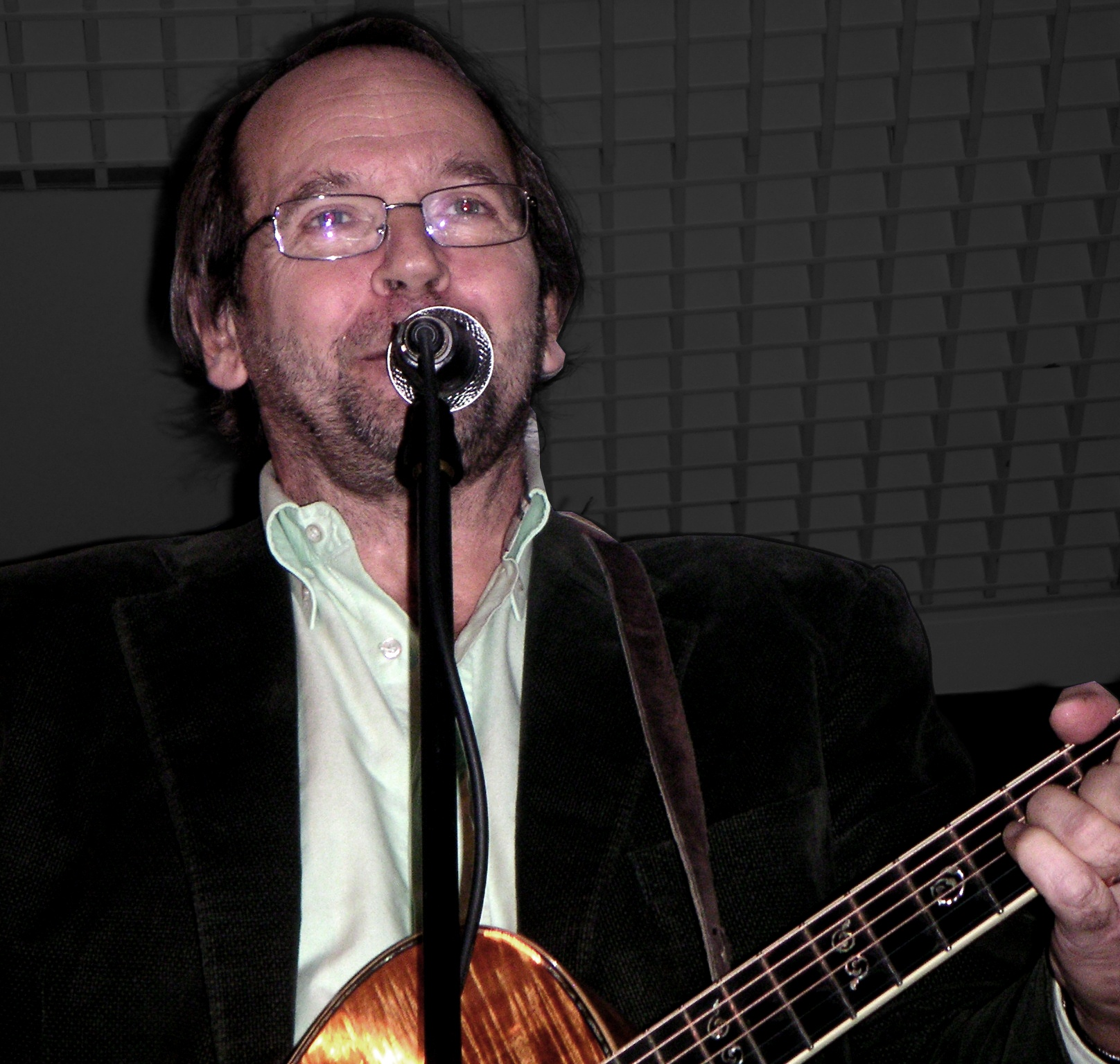 Ole Paus